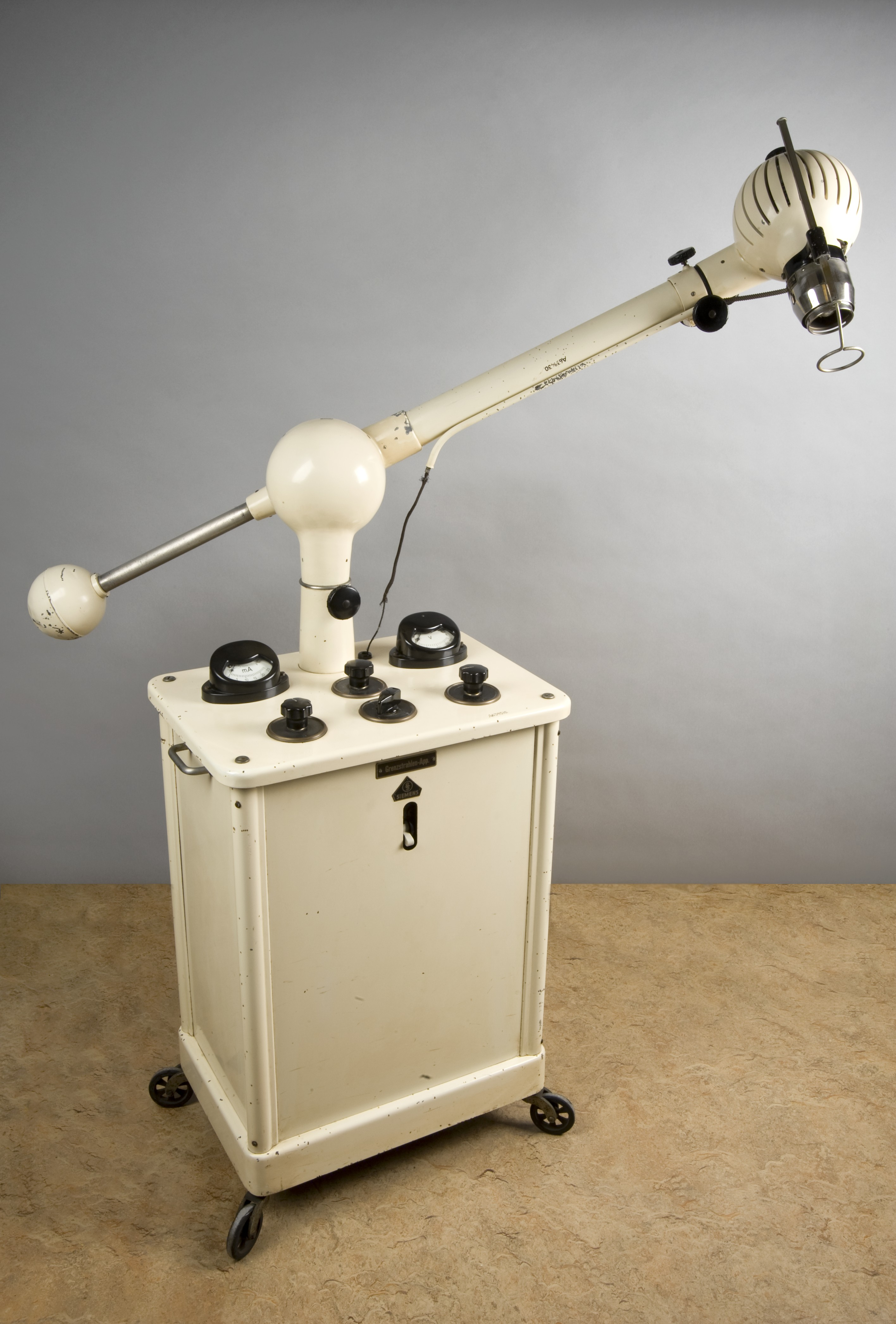 The Grenz ray machine was used for radiation therapy on the skin. It was invented by German radiologist Dr Gustav Bucky (1880-1963), who had discovered Grenz waves (low energy radiation waves) in 1925. Radiation therapy treatment was used extensively during the early 1900s. It involved passing ionising radiation through the body to treat certain skin disorders and conditions such as rheumatism. The Grenz ray machine was made by German company Siemens Reiniger during the 1930s. It was used for superficial skin therapy. This means the rays did not pass deep into the body, but worked on a surface level. Manufacturing details in German, French and English show the machine was intended for European-wide export. maker: Siemens Place made: Germany Medical Photographic Library Keywords: X-Rays; x-ray machine